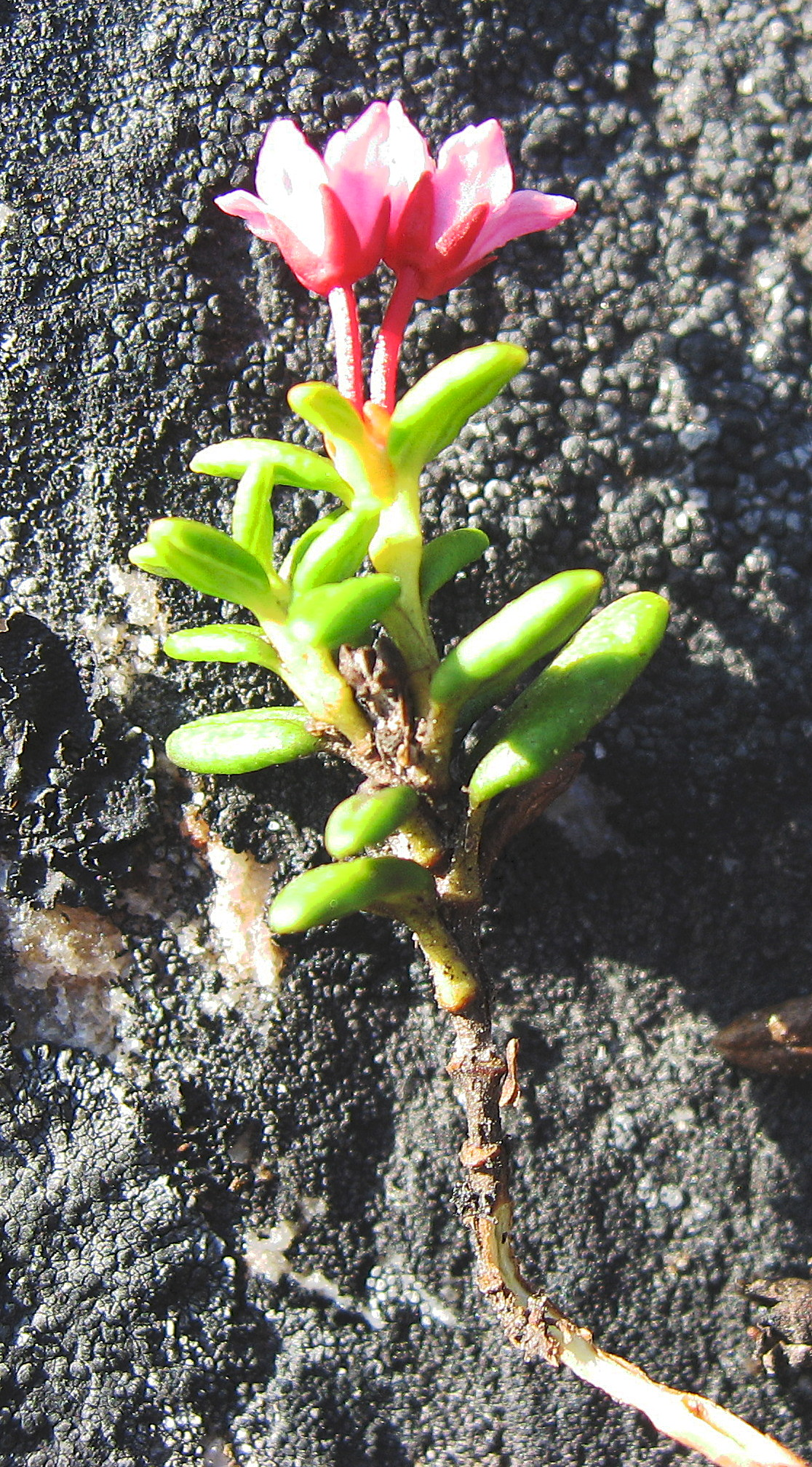 Loiseleuria procumbens photographed near Upernavik, Greenland.